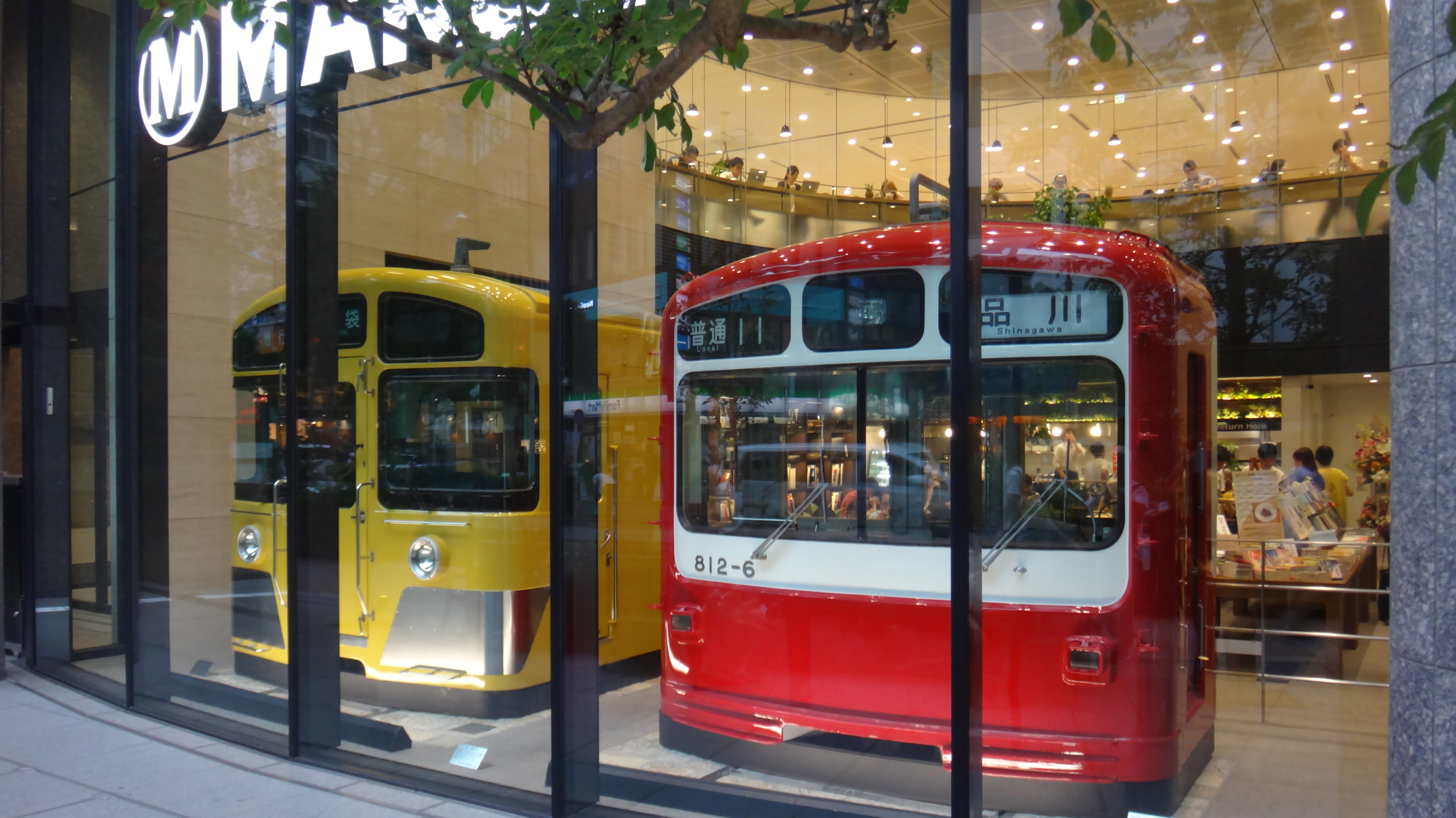 The cab ends of former Seibu Railway 2000 series EMU car 2098 (left) and Keikyu 800 series EMU car 812-6 (right) inside the Maruzen store in Minami-Ikebukuro, Toshima-ku, Tokyo, Japan